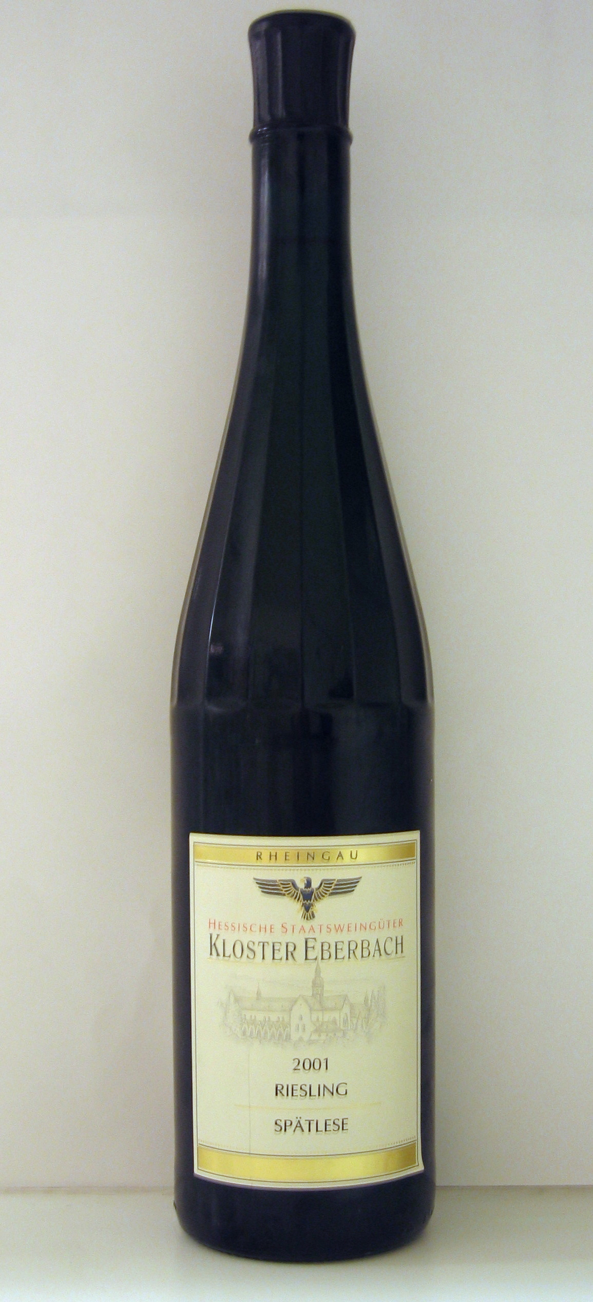 Wine bottle of the Rheingauflöte type, from the Rheingau region in Germany